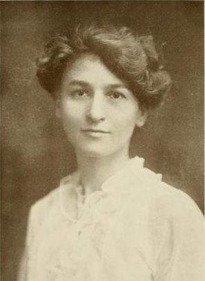 Caroline G. Thummel, Kajiwara Photo, Johnson, Anne (André) "Mrs. Charles P. Johnson", 1871-. Notable women of St. Louis, 1914; (Kindle Location 4402). [St. Louis, Woodward.]